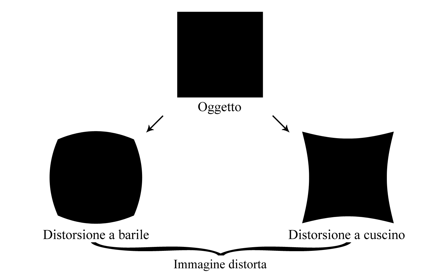 Optic distortion